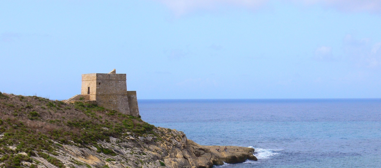 The watchtower of Xlendi This media is about Maltese cultural property with inventory number 36.